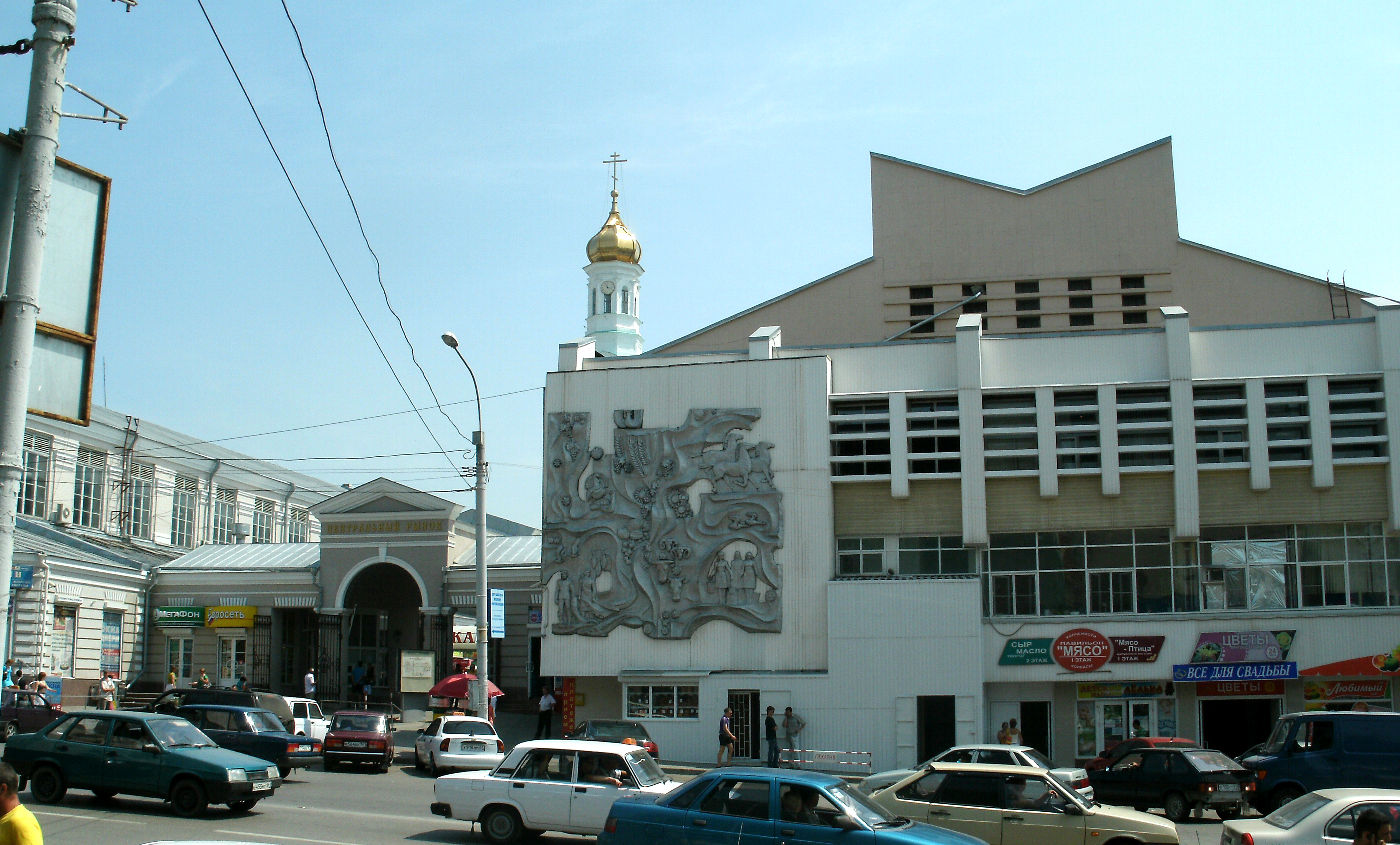 This image was made by Vorash